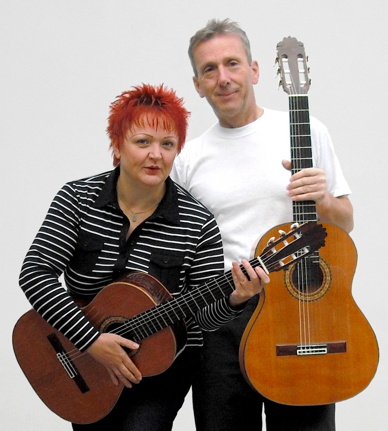 Czech Guitar Duo - Jana Bierhanzlova, Petr Bierhanzl